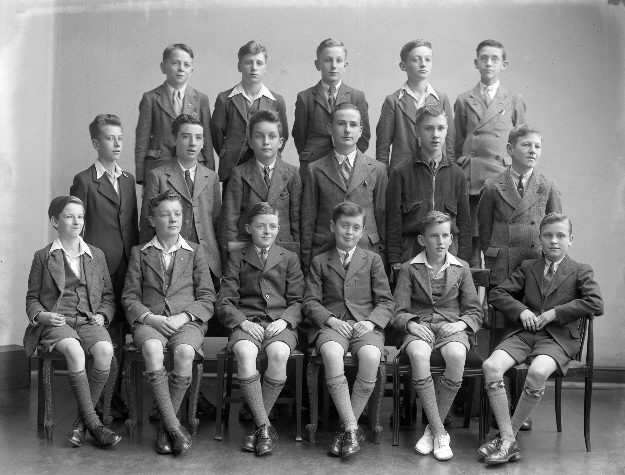 Gorgeous class photo from Synge Street School in Dublin. Love the facial expressions and the haircuts, and look at the rebel (top left) with his hair parted on the right... Would love to get names for some of these guys, and I'm sure we can do it! rockface said: "Fr Tom Burke - co-founder of the Young Scientist of the Year is in this Class but don't know which one he is...yet! Sadly he passed away in 2008." Date: 1941